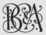 Letterhead graphic from stationery